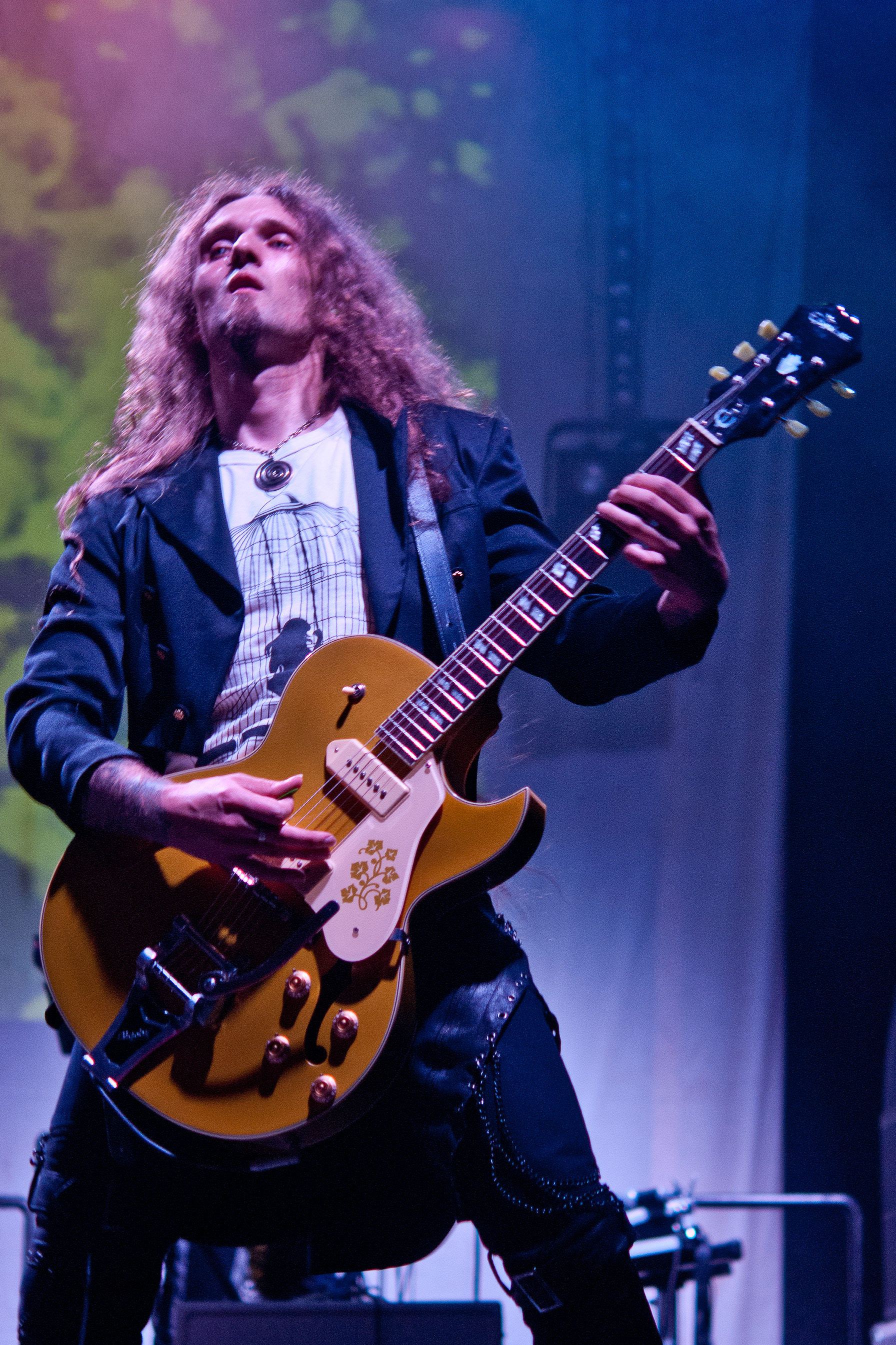 This photo was made in cooperation with CASTLE PARTY PRODUCTIONS in Bolków (webpage) Closterkeller podczas Castle Party 2012